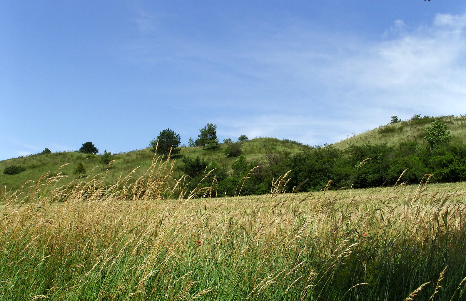 "Ziegenberg bei Heimburg" nature reserve, view to the southern side of the Struvenberg, Saxony-Anhalt, Germany